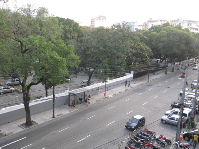 São Francisco Xavier street, Maracanã, Rio de Janeiro, Brazil